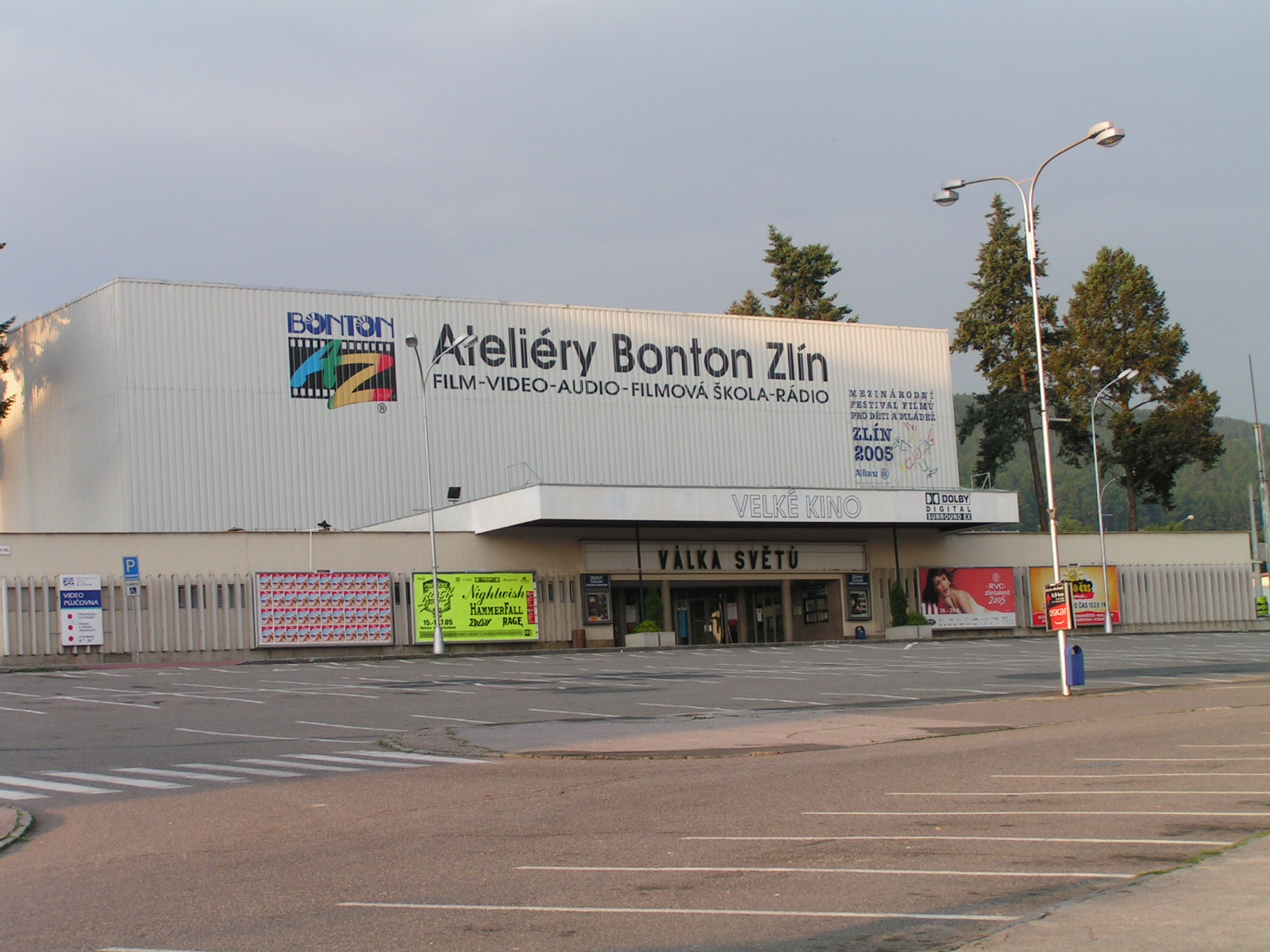 Zlín, Velké cinema.